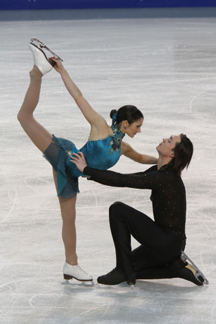 Adeline Canac and Maximin Coia at the 2010 European Figure Skating Championships.